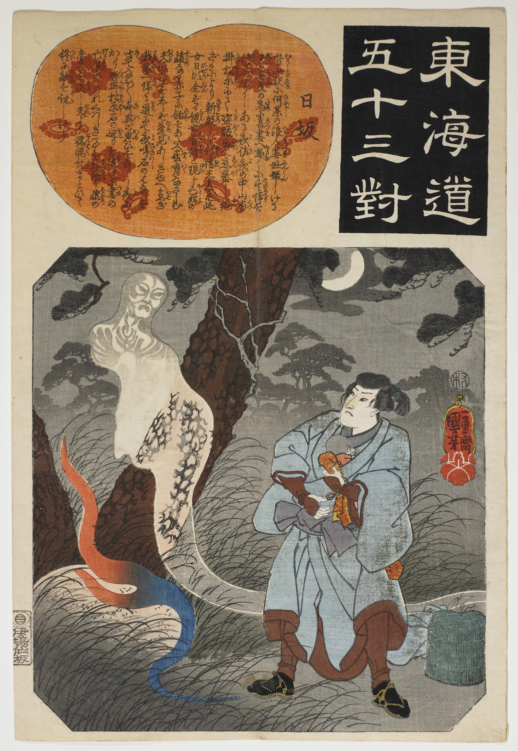 Featuring a "child-rearing ghost.